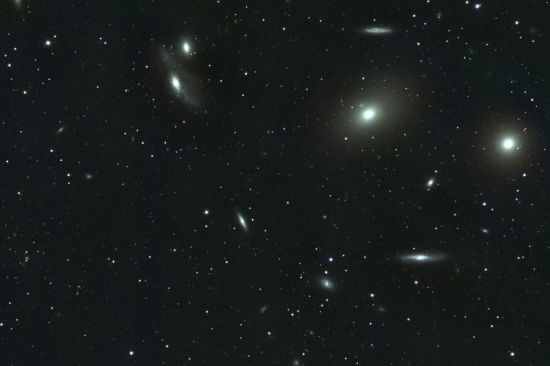 Virgo cluster